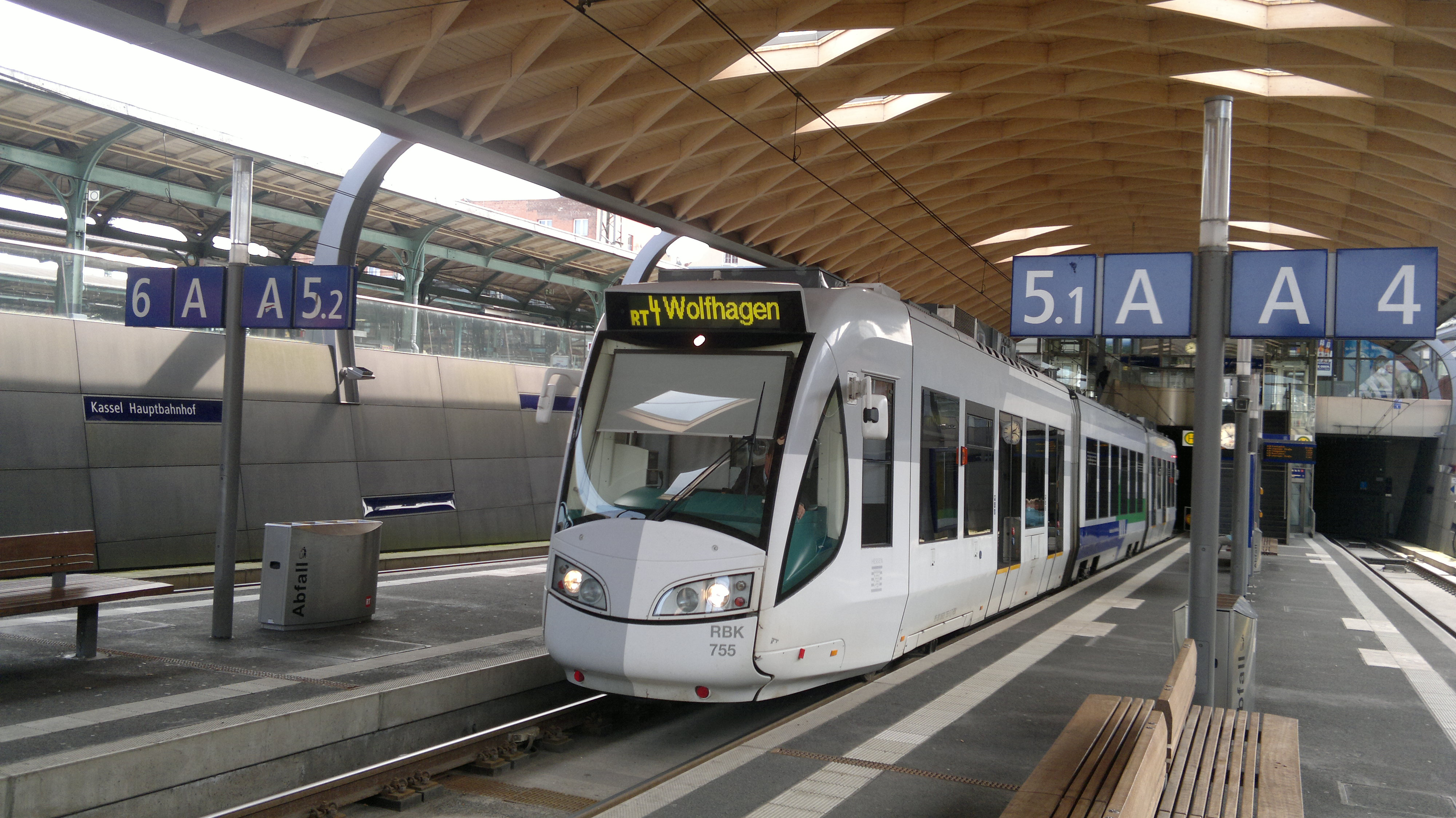 RT4 Kassel Hauptbahnhof